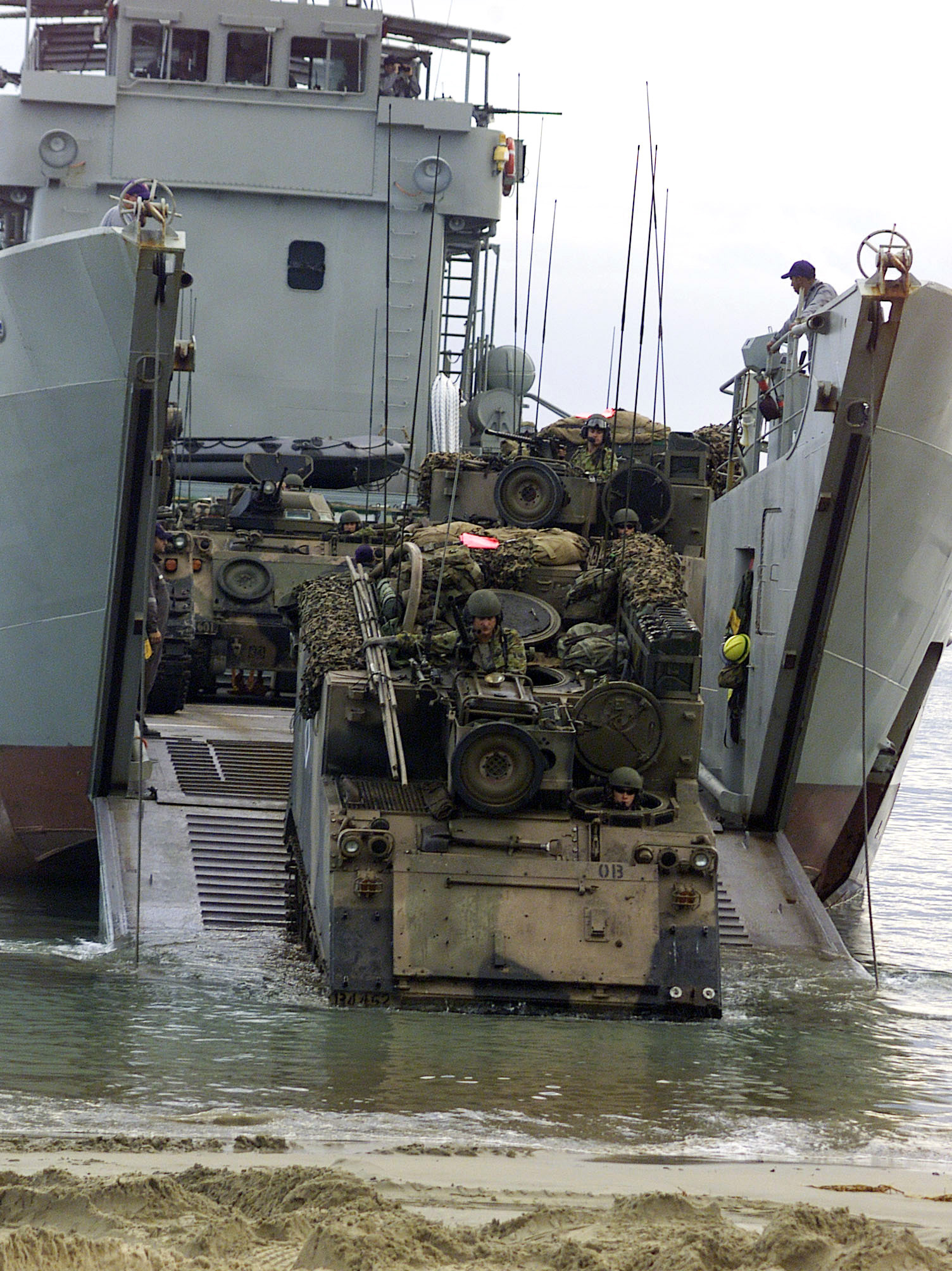 The Marines have landed! Marines with the 31st Marine Expeditionary Unit (MEU) storm through what once were the calm waters of Freshwater Bay Beach during a beach landing exercise in the Shoalwater Bay Military Training Area during Exercise TANDEM THRUST 2001. TANDEM THRUST is a combined United States and AUSTRALIAn military training exercise. This biannual exercise is being held in the vicinity of Shoalwater Bay training area, Queensland, AUSTRALIA. More than 27,000 Soldiers, Sailors, Airmen and Marines are participating, with Canadian units taking part as opposing forces. The purpose of TANDEM THRUST is to train for crisis action planning and execution of contingency response operations. Note: US DOD caption is inaccurate: this is actually a photo of an Australian M-113 landing from a Balikpapan class LCH. Location: SHOALWATER BAY, QUEENSLAND AUSTRALIA (AUS) Camera Operator: CPL LIZ HERRERA, USMC Date Shot: 18 May 2001